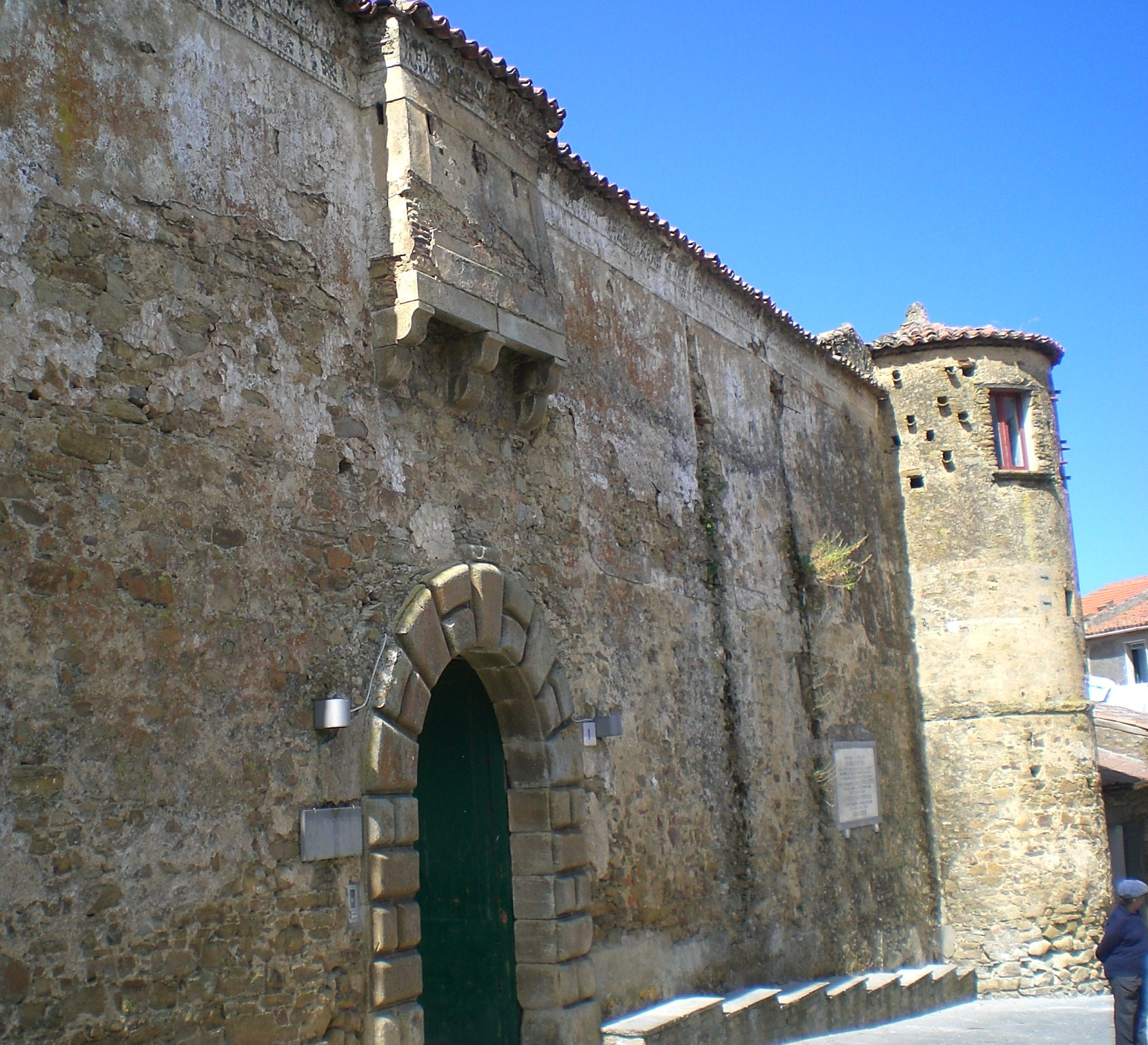 Castle Vargas of Vatolla near Perdifumo